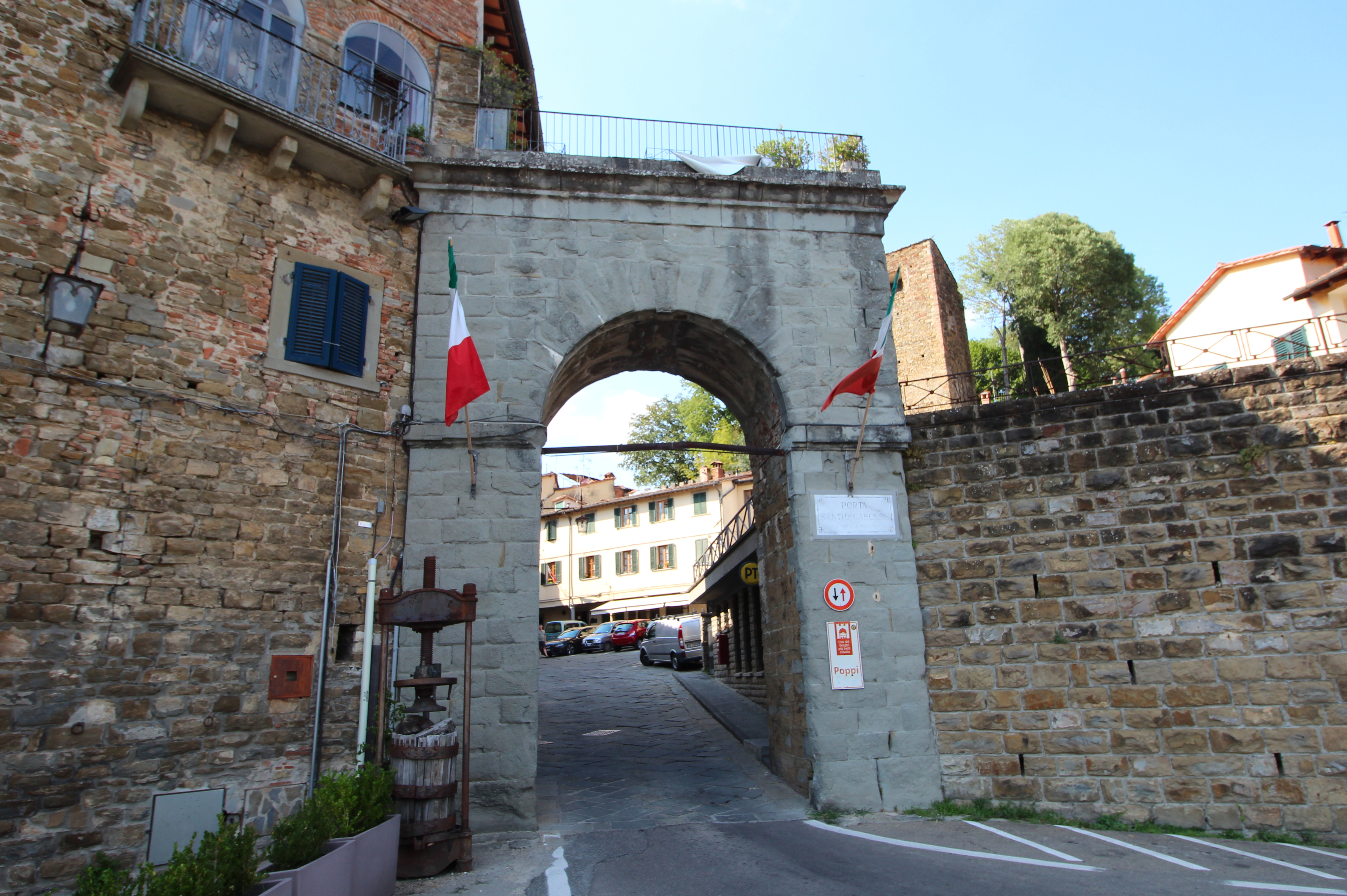 Porta Santi di Cascese (also Porta a Fronzola), City Gate in Poppi, Province of Arezzo, Tuscany, Italy